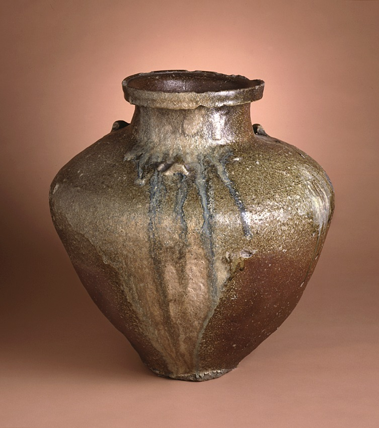 Japan, Aichi prefecture, Kamakura period, circa 1200-1400 Furnishings; Serviceware Tokoname ware; coil-built stoneware with ash glaze Purchased with funds provided by the Museum Associates, the Frederick R. Weisman Company, Far Eastern Art Council (M.80.77) Japanese Art Currently on public view: Pavilion for Japanese Art, floor 3